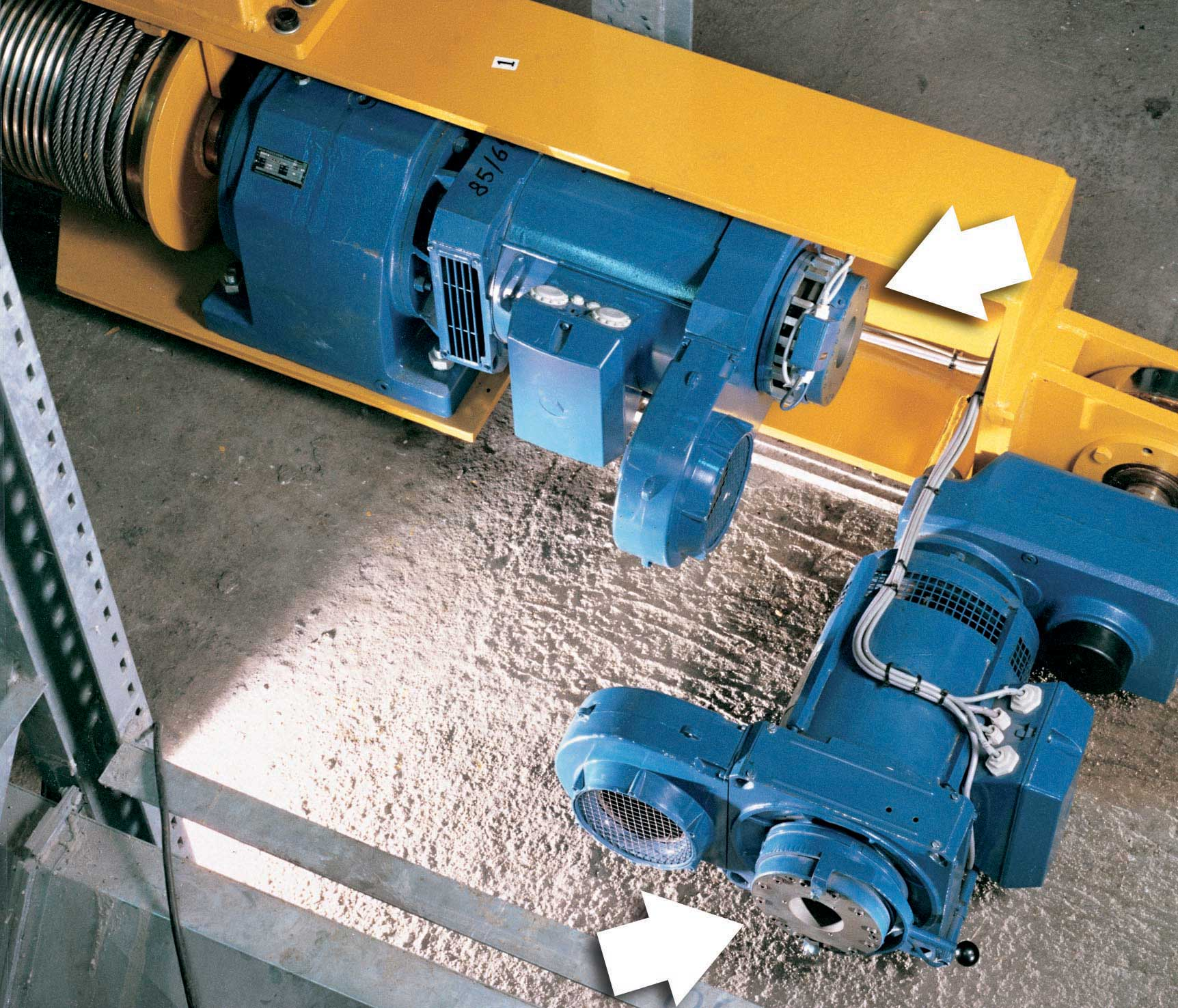 Example of installation for a safety brake